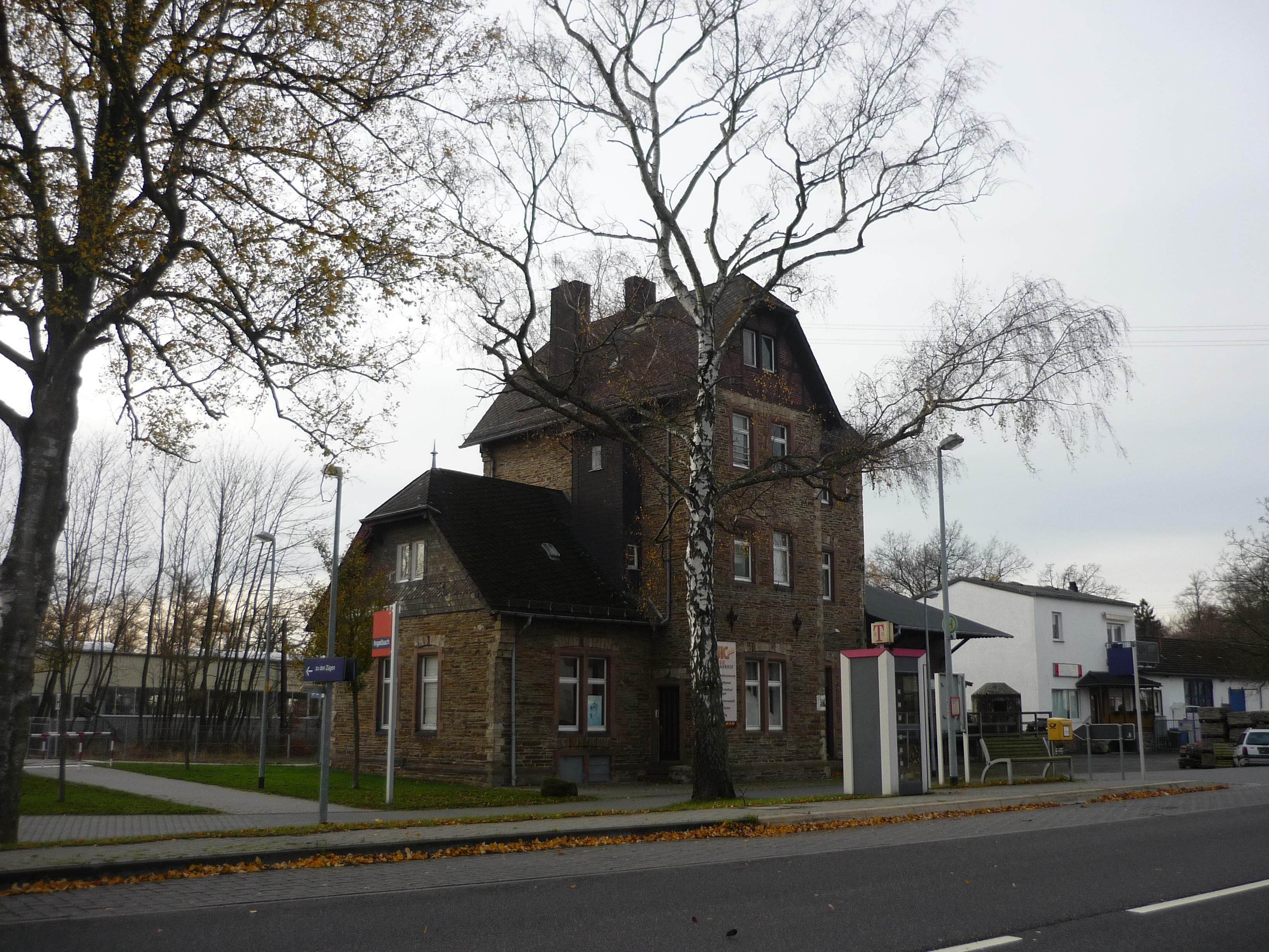 Railway station ingelbach westerwald 2009